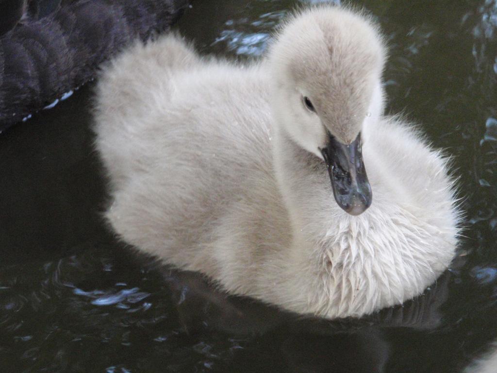 Black swan young, University of York